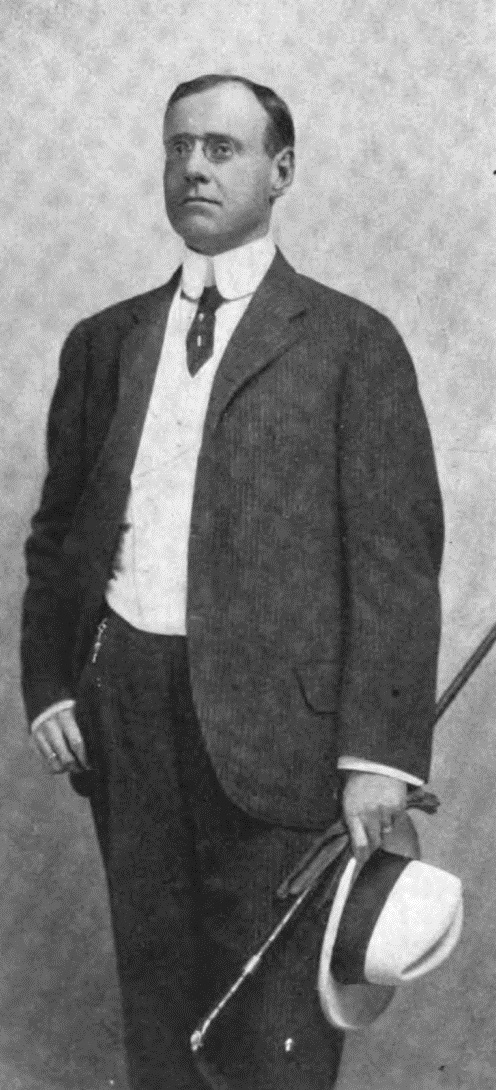 Hobart Chatfield-Taylor